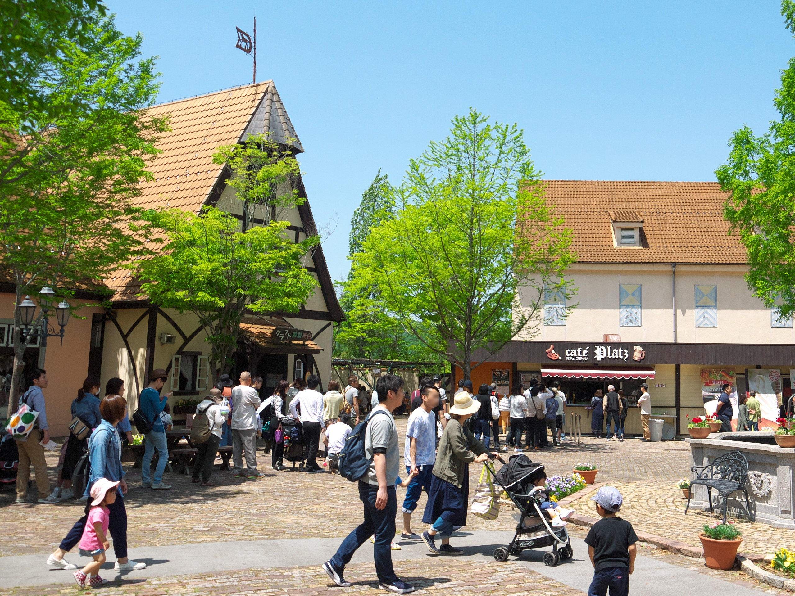 Okayama Agriculture Park German Forest Kronenberg